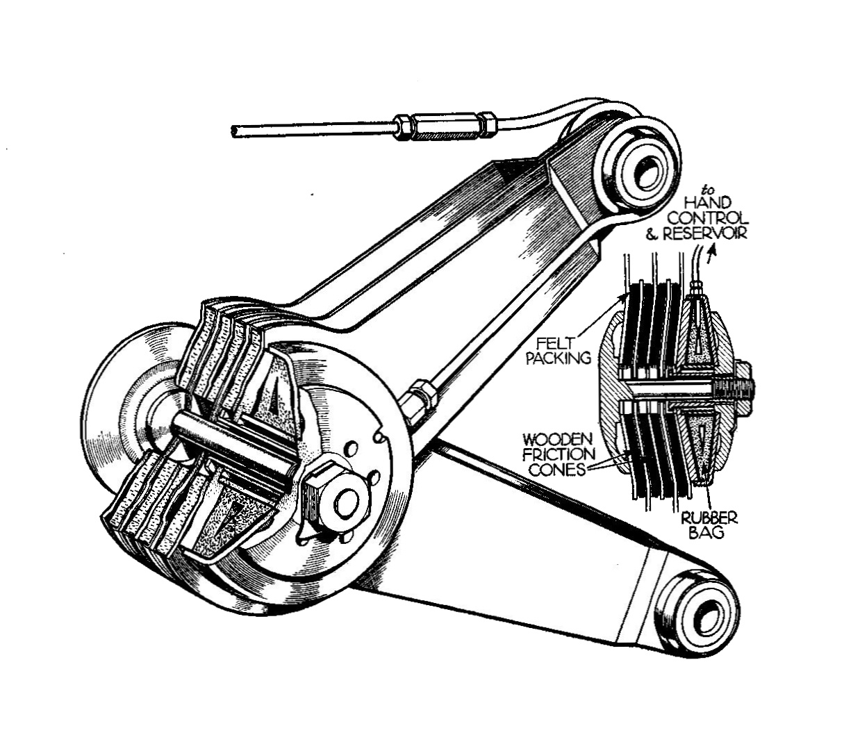 Telecontrol adjustable friction disk shock absorber (Autocar Handbook, 13th ed, 1935).jpg